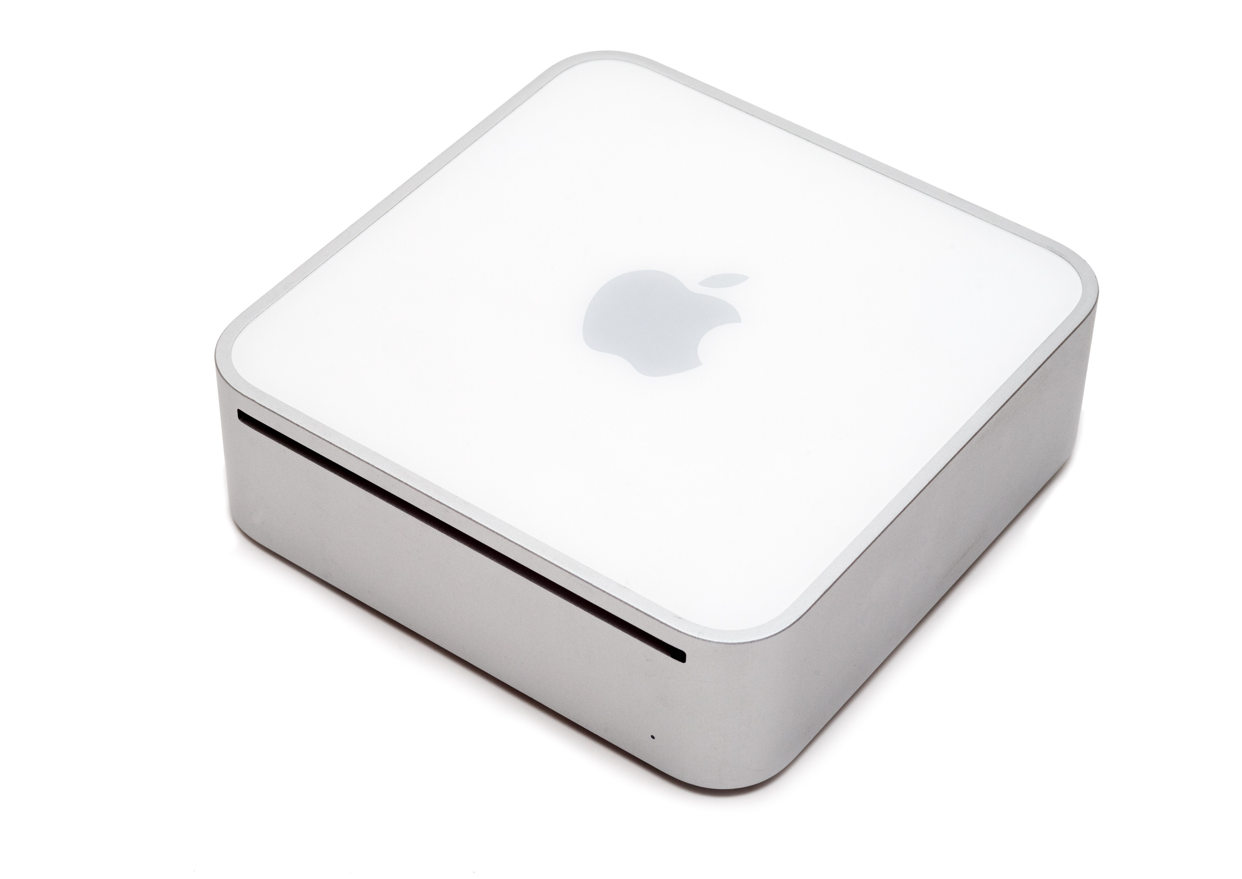 A 2009 Mac Mini